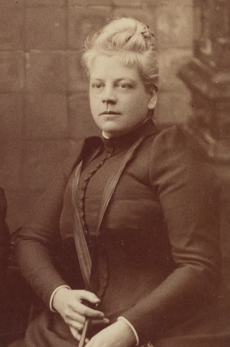 Isabel Florence Hapgood photographed by Ritz Photos Boston MA August 1890